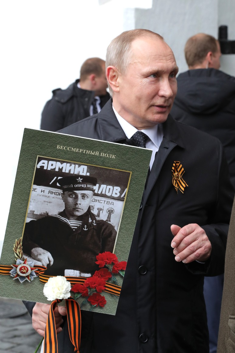 Immortal Regiment in Moscow (2017-05-09)